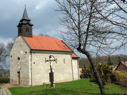 Church of Bátonyterenye, Maconka.